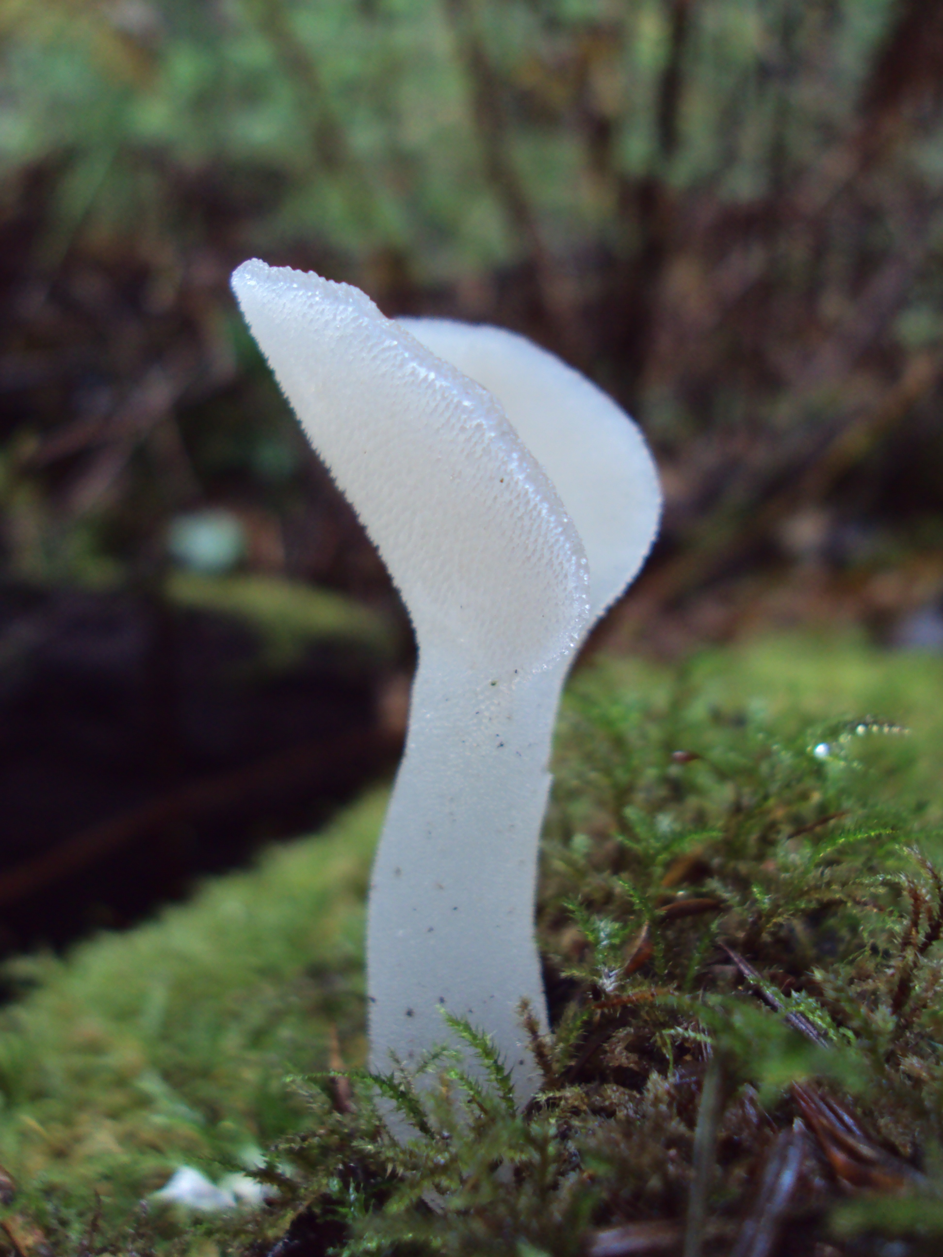 Pseudohydnum gelatinosum (Scop.) P. Karst. Location: Russian Gulch State Park, Mendocino Co., California, USA Observation Notes: Growing on an old rotten conifer branch For more information about this, see the observation page at Mushroom Observer.